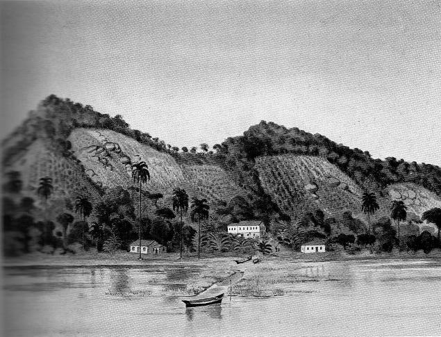 Willian Michaud painting of wineyards at Superaguy Colony.